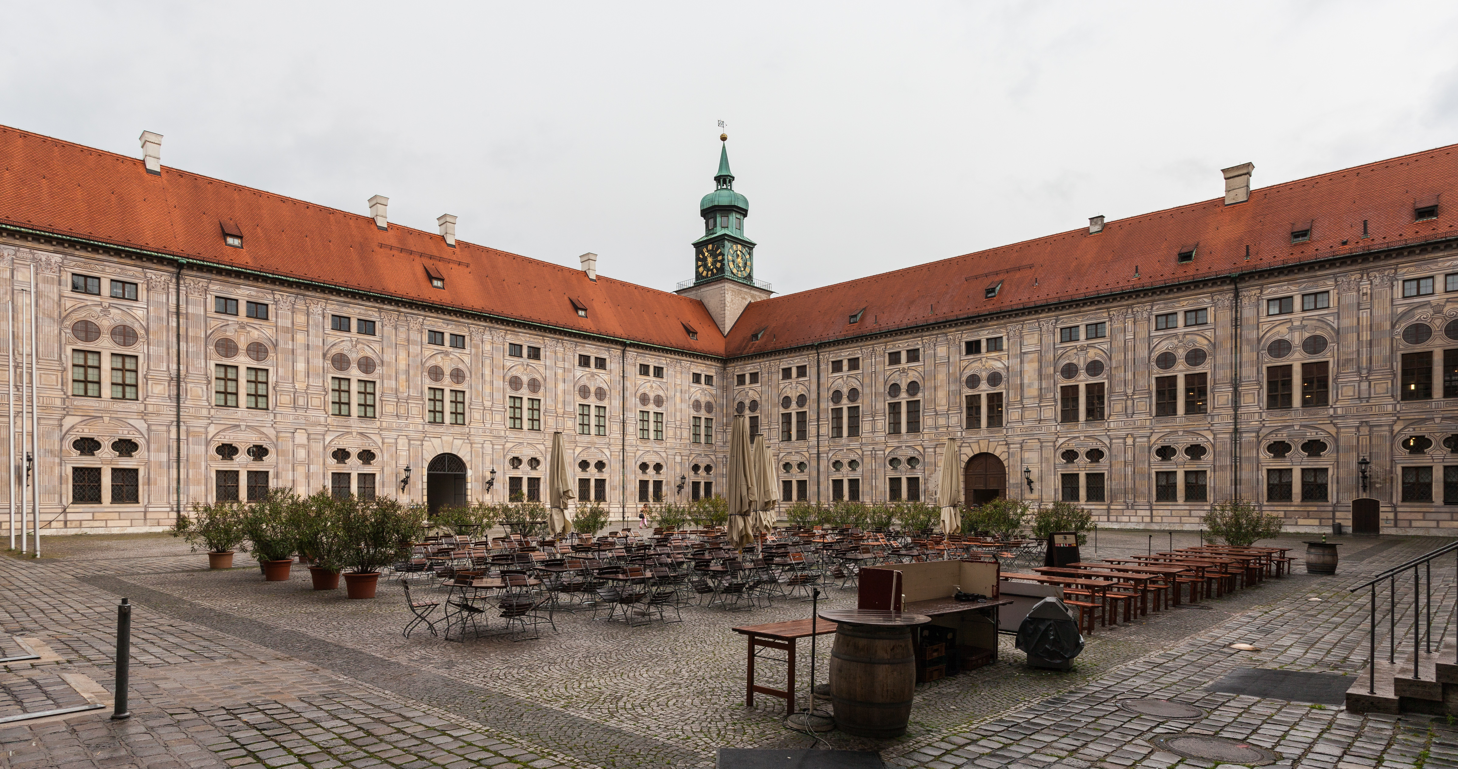 Emperor Courtyard, Munich Residence, Munich, Germany